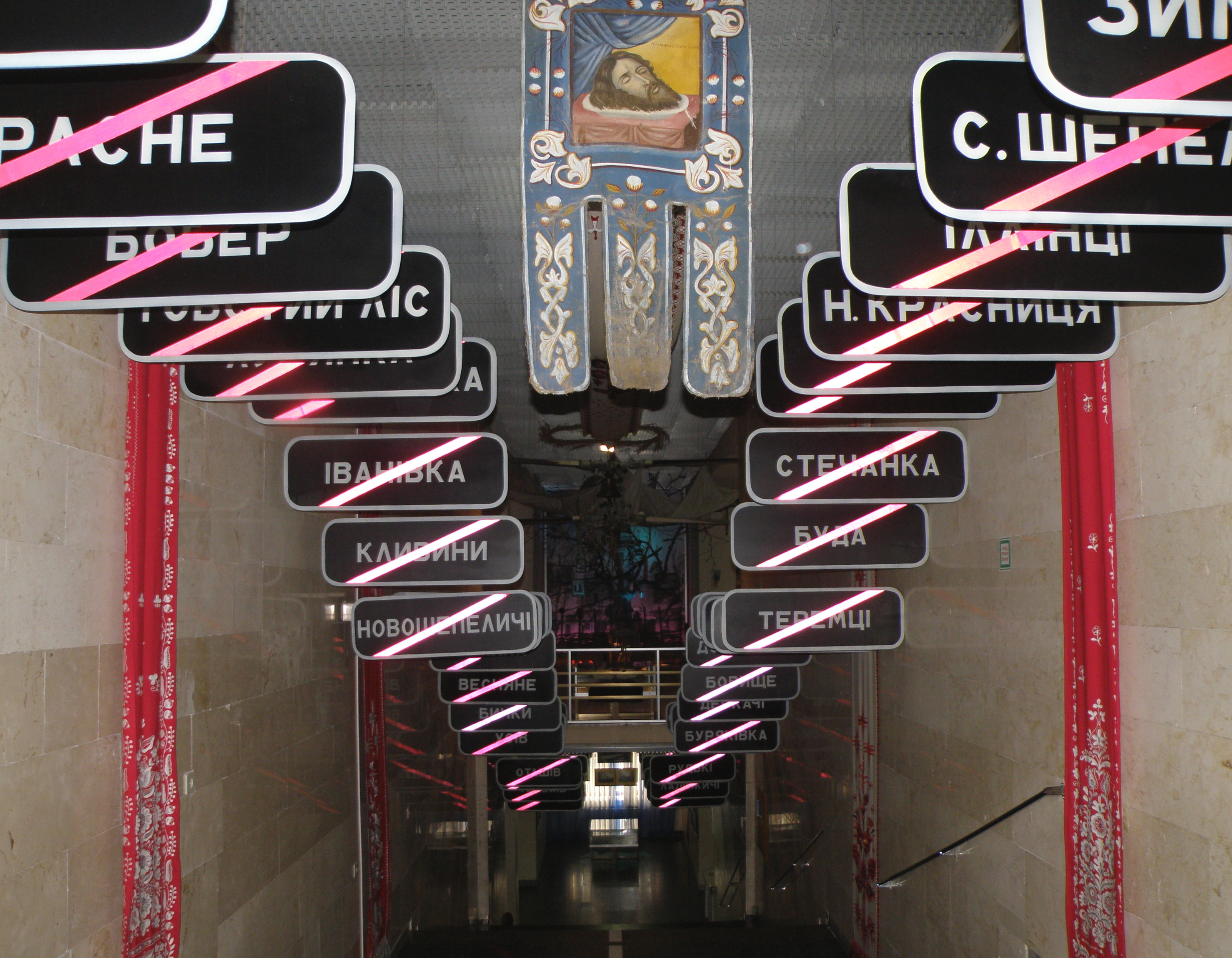 Hallway in the Ukrainian National Chernobyl Museum in Kyiv/Kiev. In European signage, drivers are notified of entering a town by a sign (usually black on white) with the place name. At the city limits leaving town, the same appears but with a diagonal stroke through the work. These signs are of towns which were disbanded for being too close to the site of the disaster. The use of the diagonal stroke is used as a visual wordplay, symbolizing both "You are now leaving..." of road signage and cancellation of existence. Above the signs are the authentic khorugvs from the abandoned village churches.The walls and cieling are hung with Ukrainian symbolic fabrics.